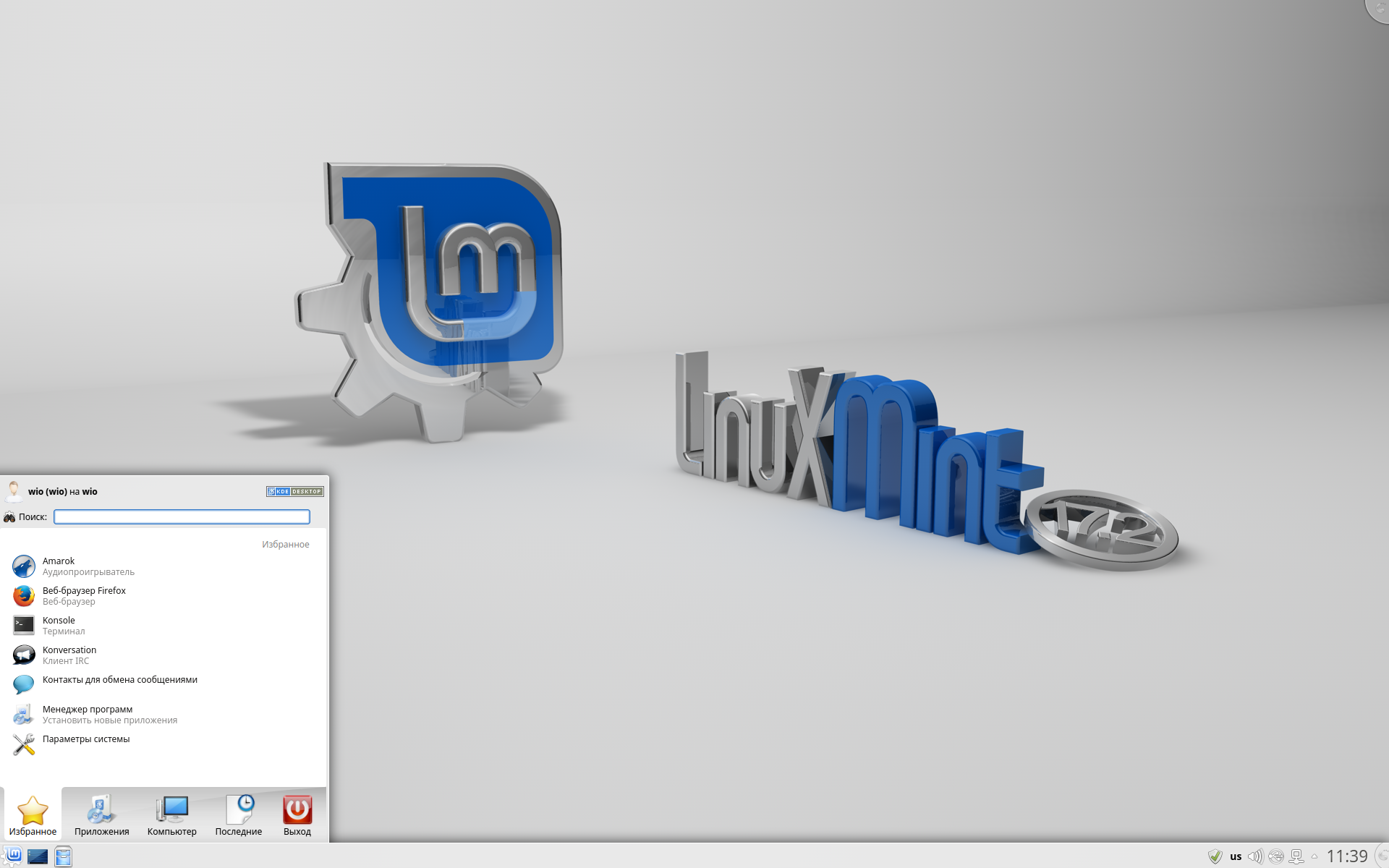 Linux Mint KDE 17.1 screenshot